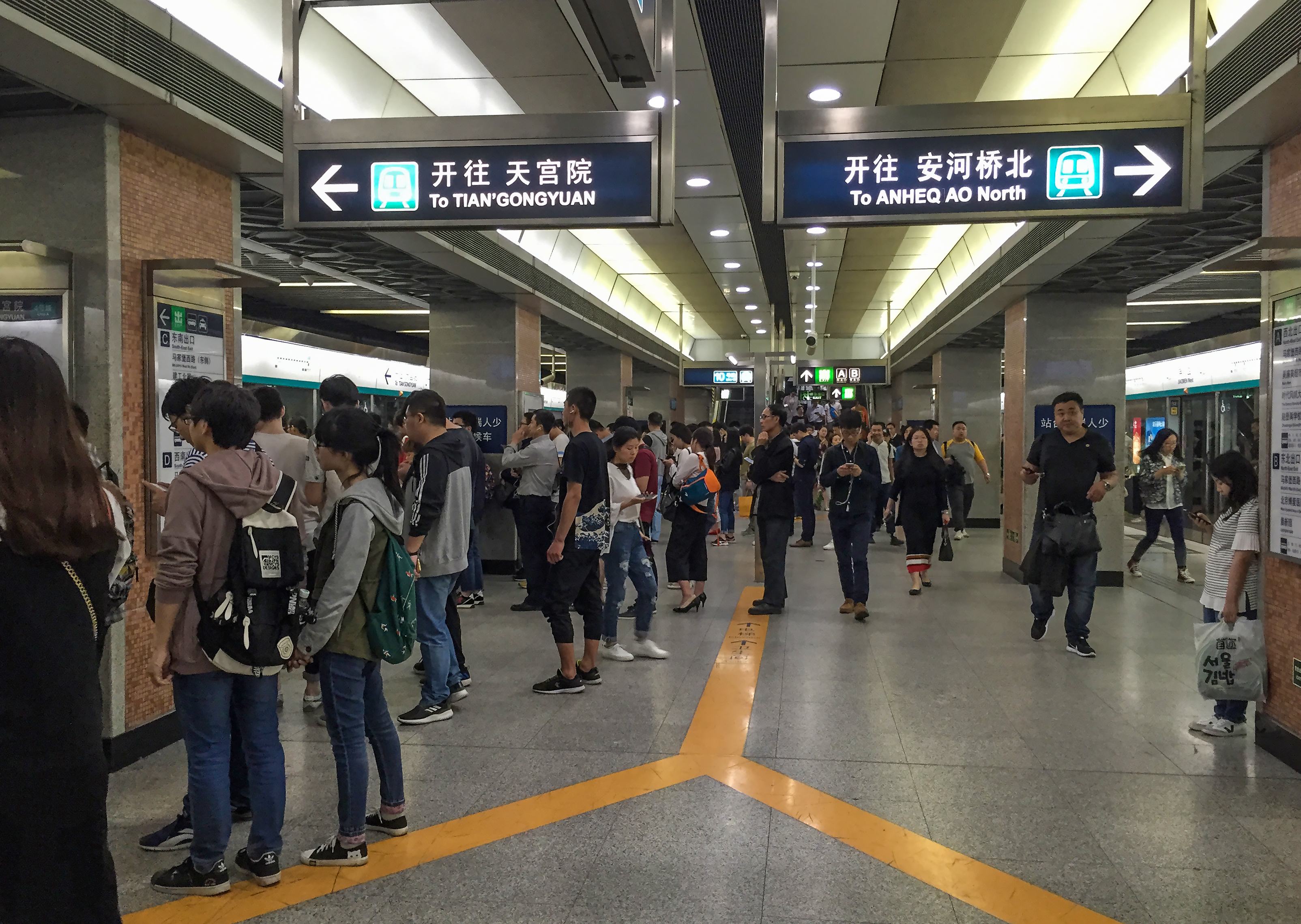 Second time!